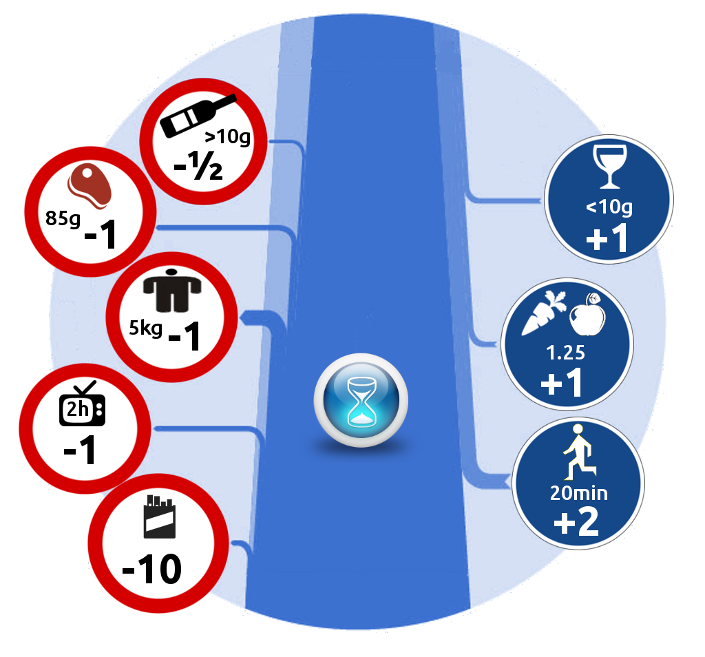 Graphic representation of the [1] idea by David Spiegelhalter.